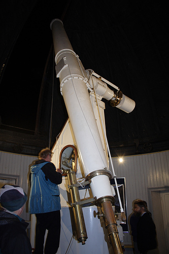 12" Grubb Refractor at South Dome in Dunsink Observatory